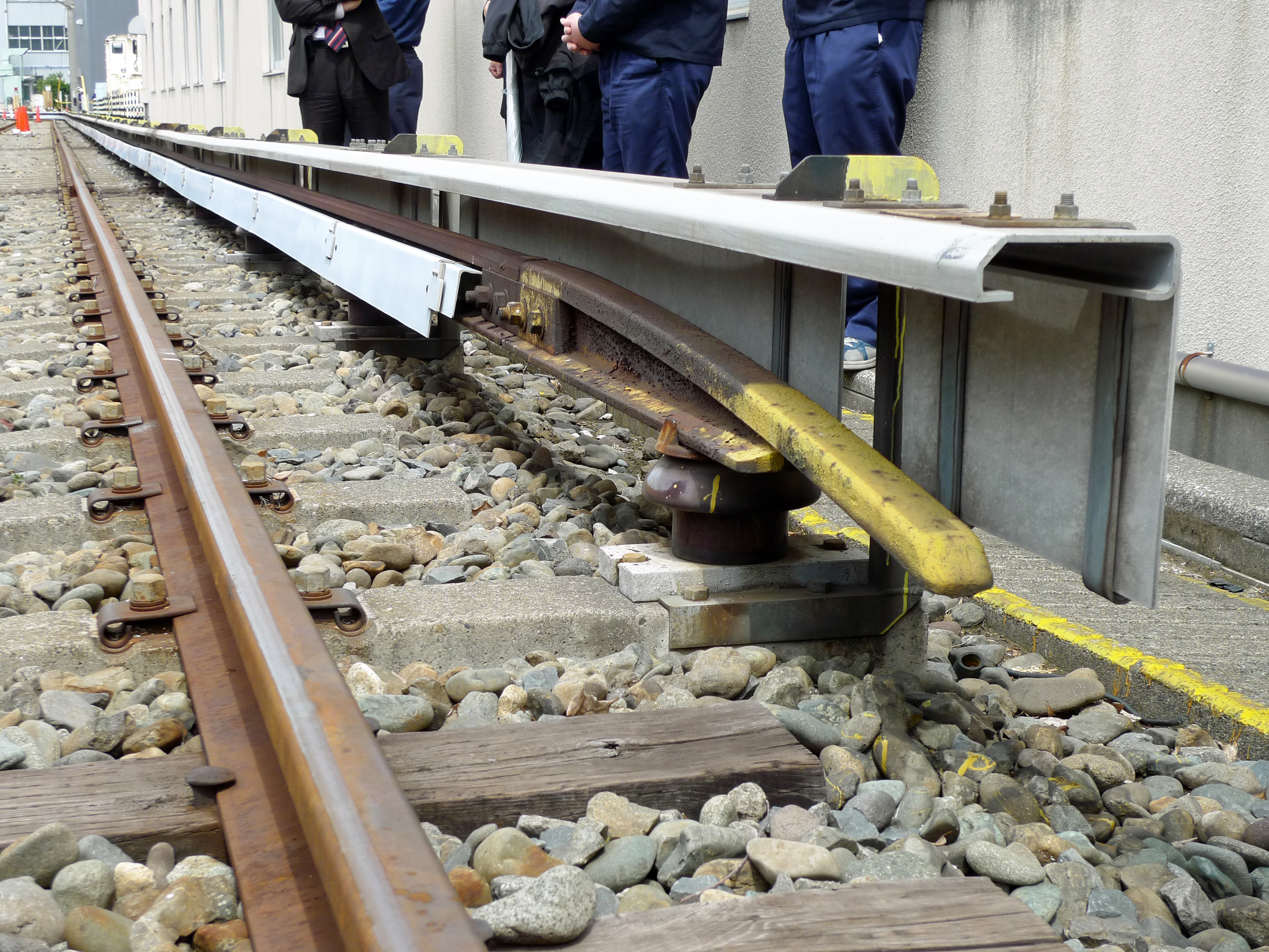 Third rail at the Tokyo Metro Nakano Depot